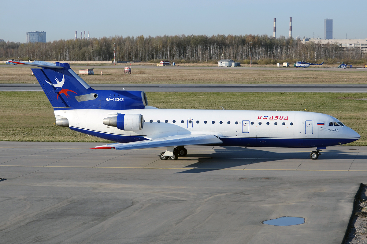 Izhavia Yakovlev Yak-42D at Pulkovo Airport